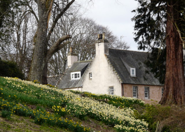 Ardullie Lodge, near to Ardullie, Highland, Great Britain.